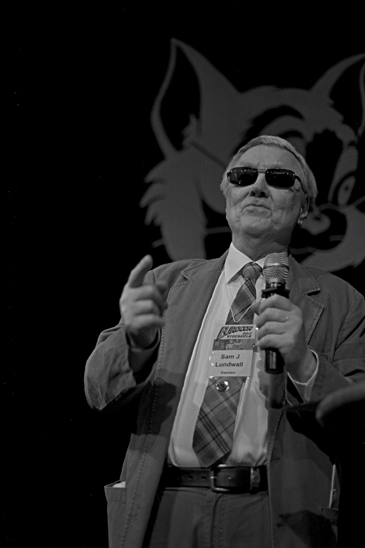 Sam J. Lundwall at Eurocon 2011 in Stockholm.